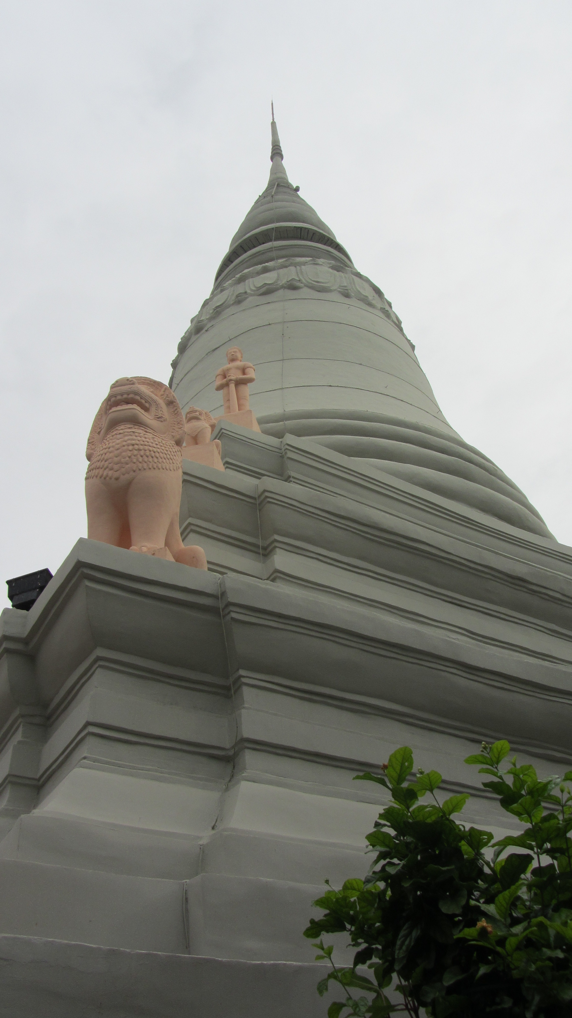 Ponhea Yat moved the capital to Phnom Penh from Angkor Thom.